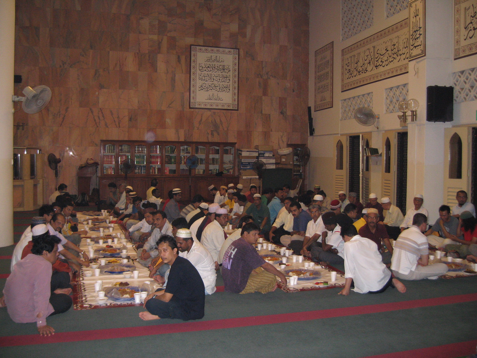 People gathered to break fasting in mosque